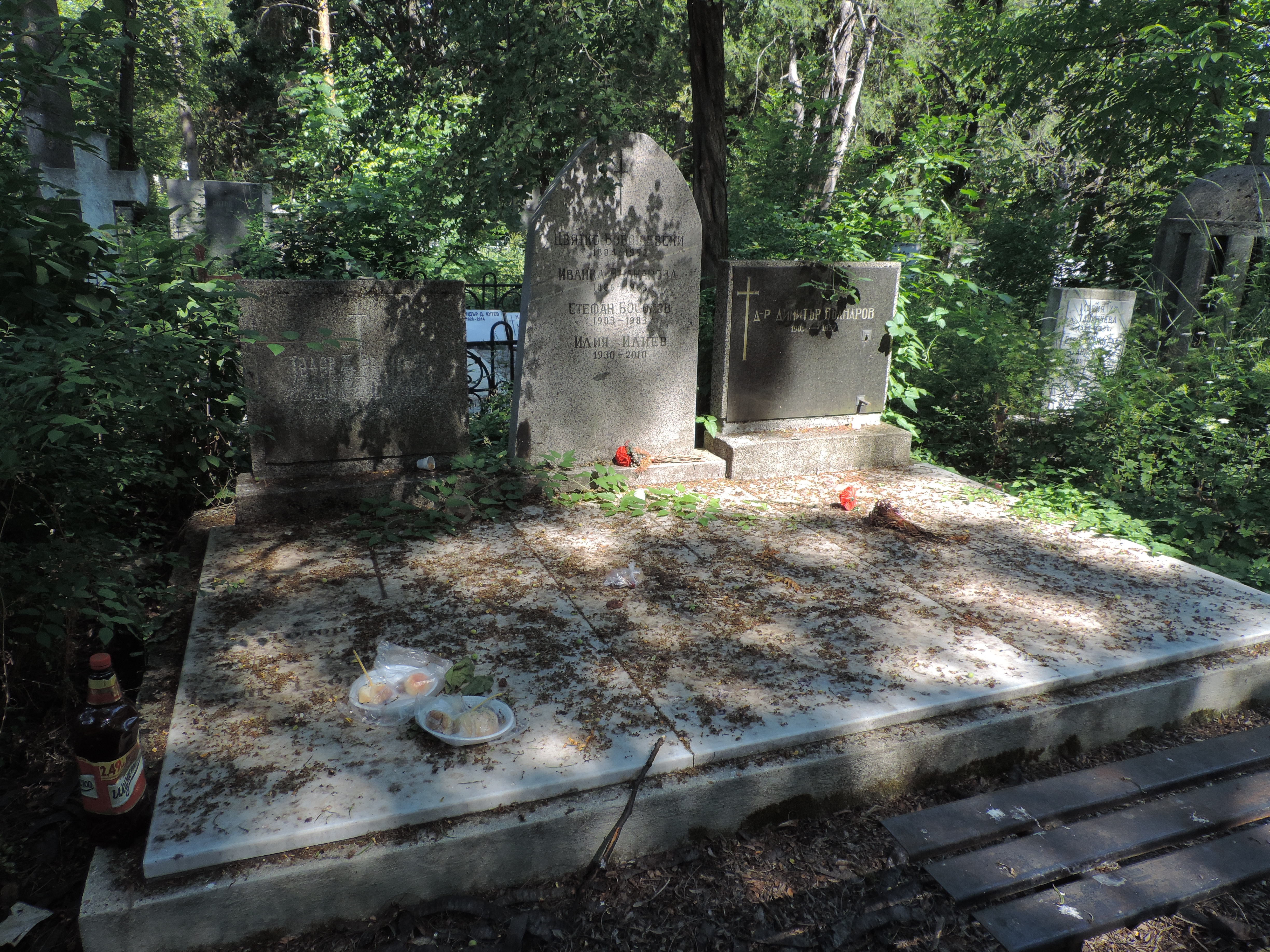 Central Sofia Cemetery